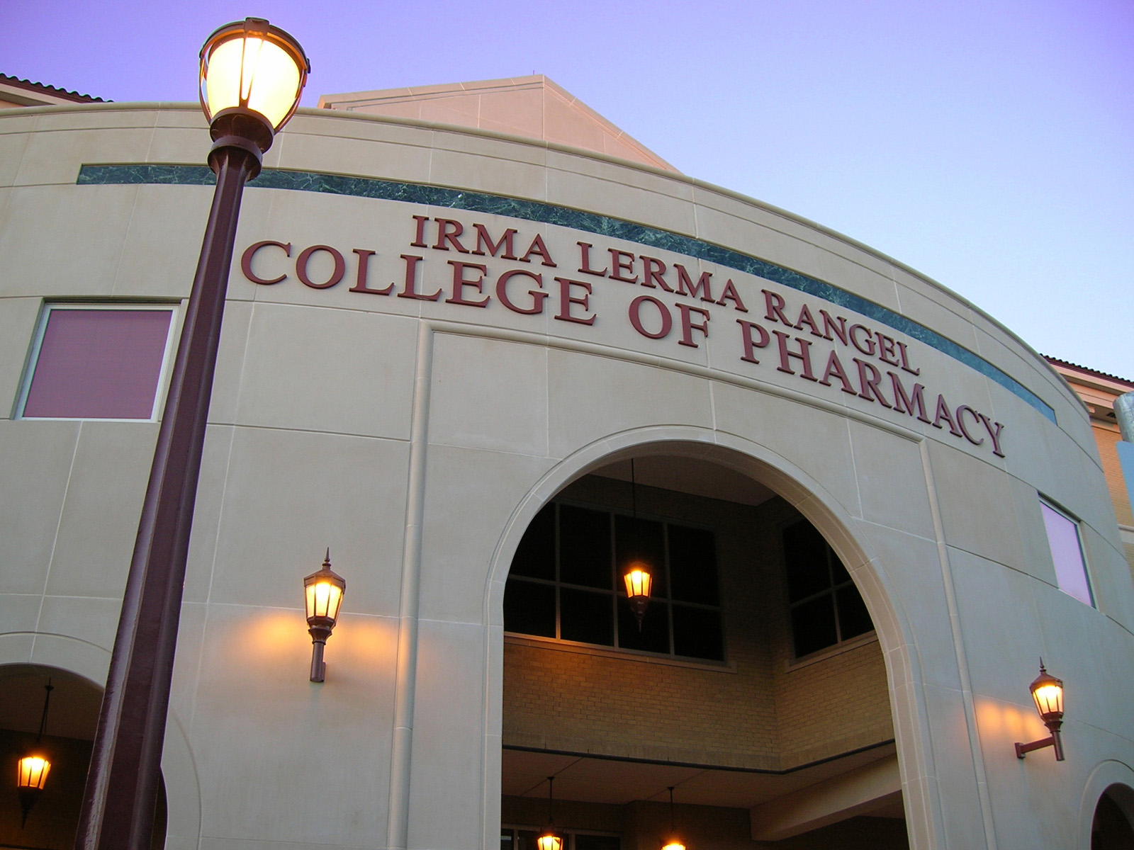 Irma Rangel College of Pharmacy in 2008